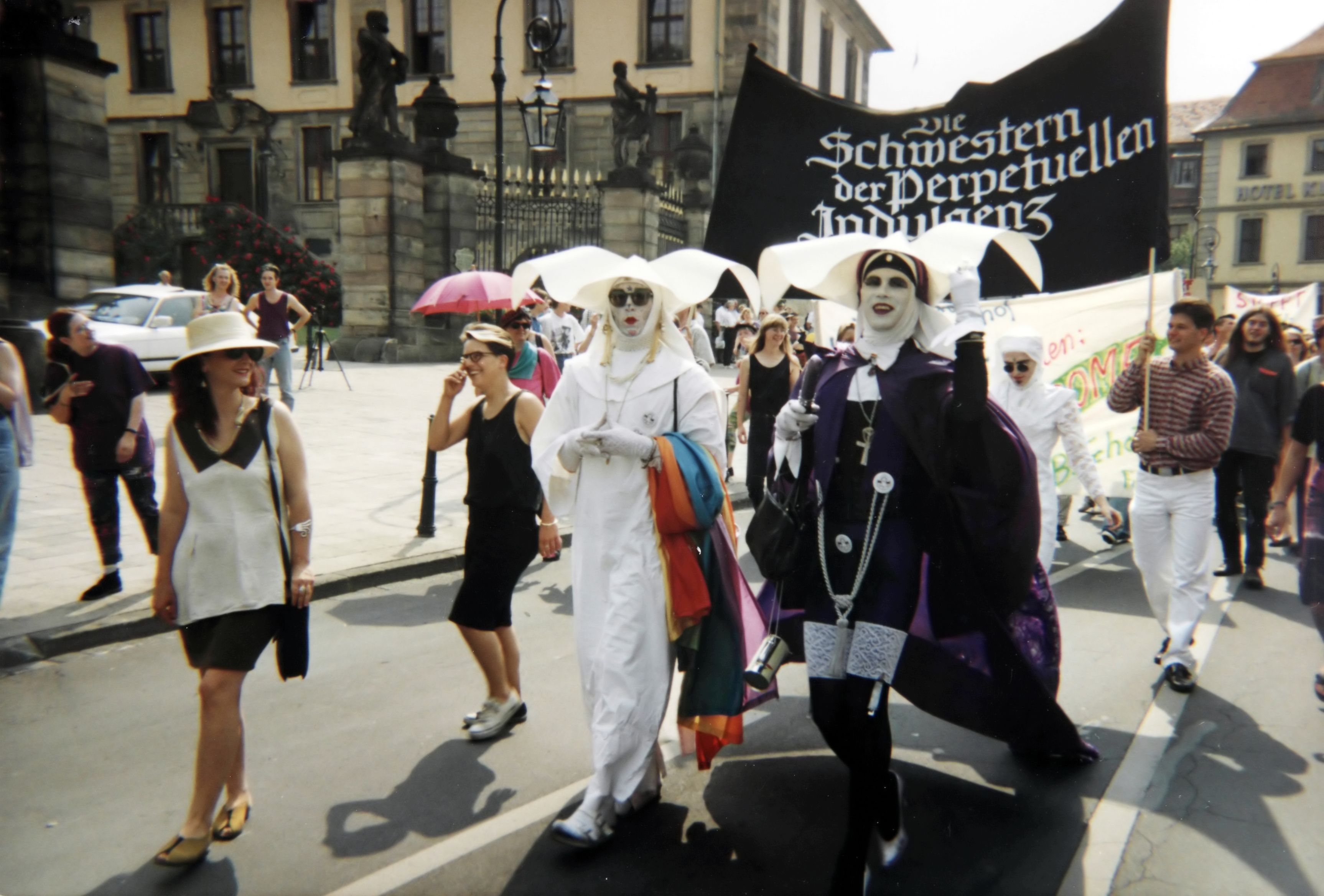 Sisters of Perpetual Indulgence, gay pride parade/Christopher Street Day parade, Fulda (bishop episcopal in Northern Hesse), Germany, 1993.